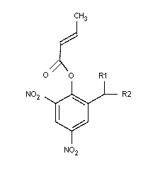 structure of dinocap-6. R1 is methyl, ethyl or propyl; R2 is hexyl, pentyl or butyl.